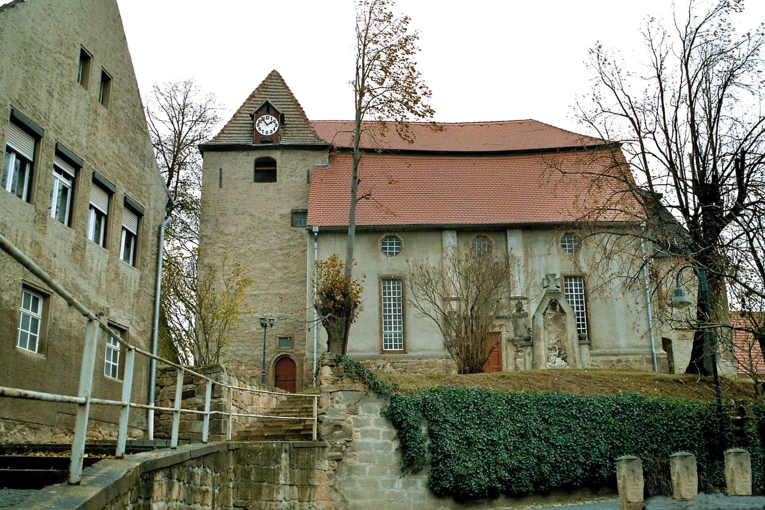 Altenroda (Bad Bibra), the village church